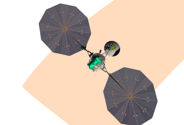 Mars 2022 orbiter is a concept study by NASA to develop a Mars communications relay satellite with some science cpability payload, and propelled by a solar ion thruster.